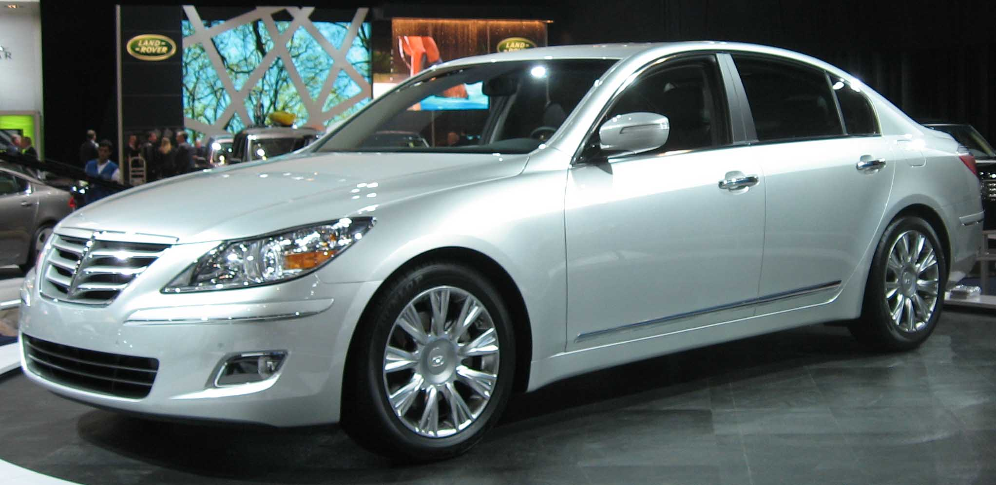 2009 Hyundai Genesis photographed at the 2008 New York Auto Show.